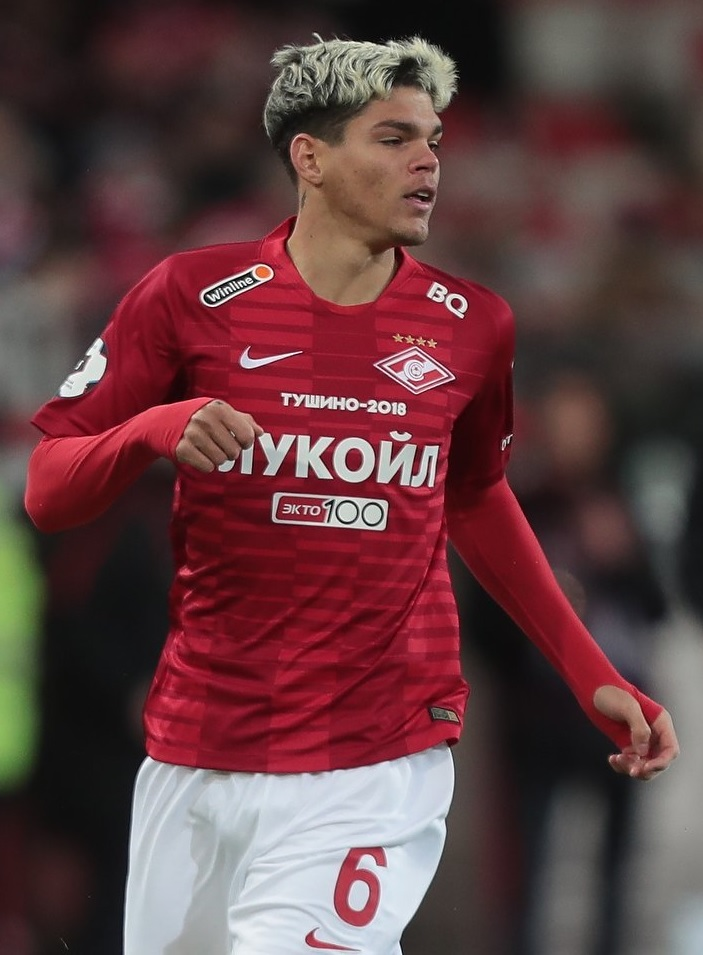 Ayrton Lucas with FC Spartak Moscow in a game against FC Krasnodar.